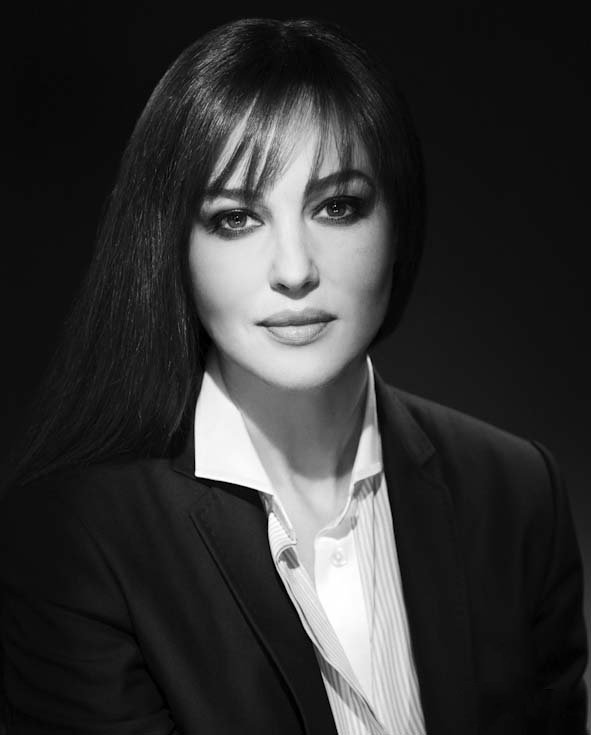 Monica Bellucci photographed by Studio Harcourt Paris